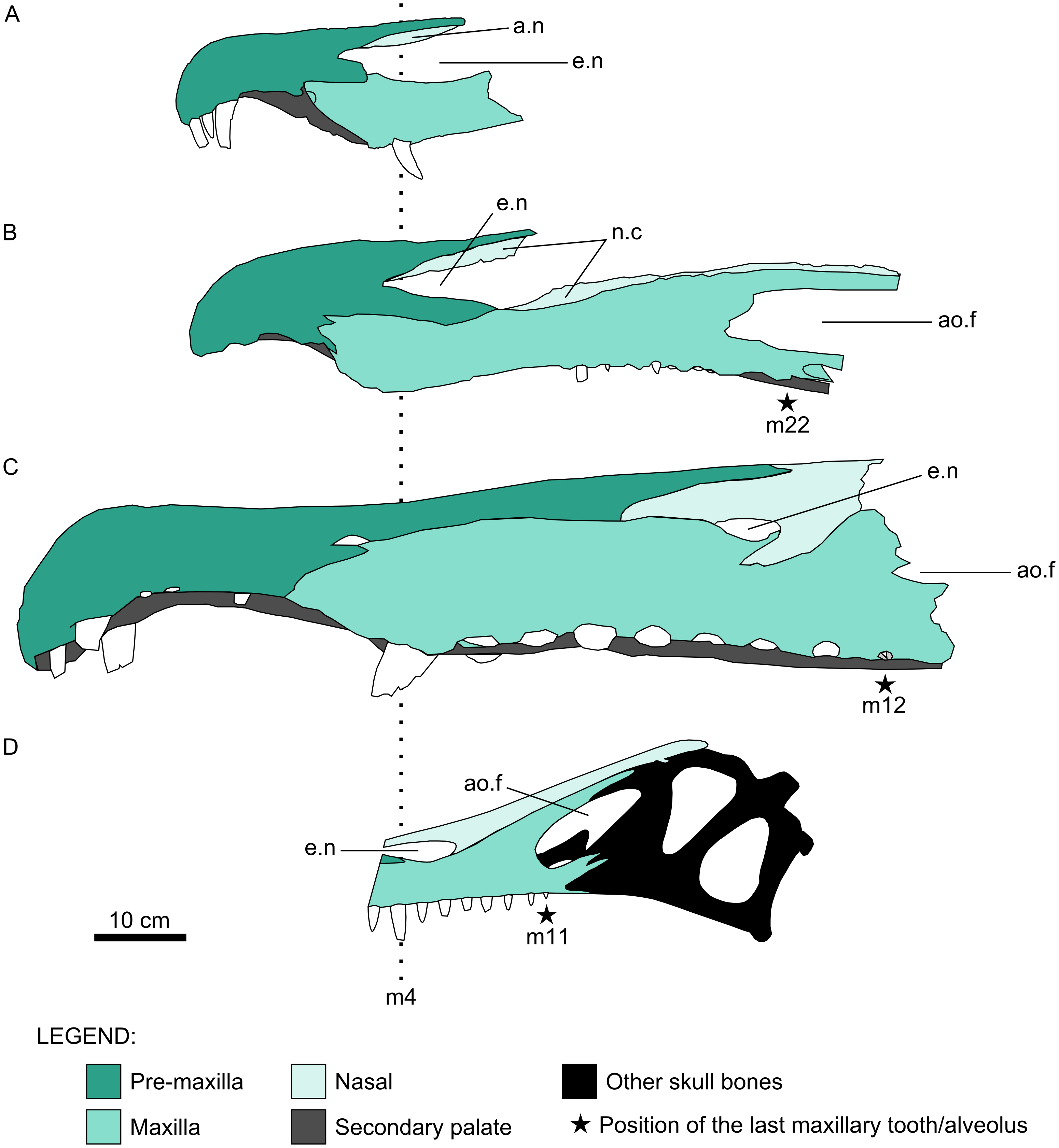 A, Premaxillae and maxillae of Baryonyx walkeri. B, Partial rostrum (MNN GDF501) referred to Suchomimus tenerensis. C, Specimen MSNM V4047. D, Reconstructed skull of Irritator challengeri. All specimens are aligned based on the position of the fourth maxillary tooth, whereas the last maxillary tooth (or alveolus) in each is indicated by a black star. Abbreviations for teeth follow Hendrickx et al. [58]. Additional abbreviations: n.c, nasal contact; ao.f, antorbital fenestra; e.n, external naris.